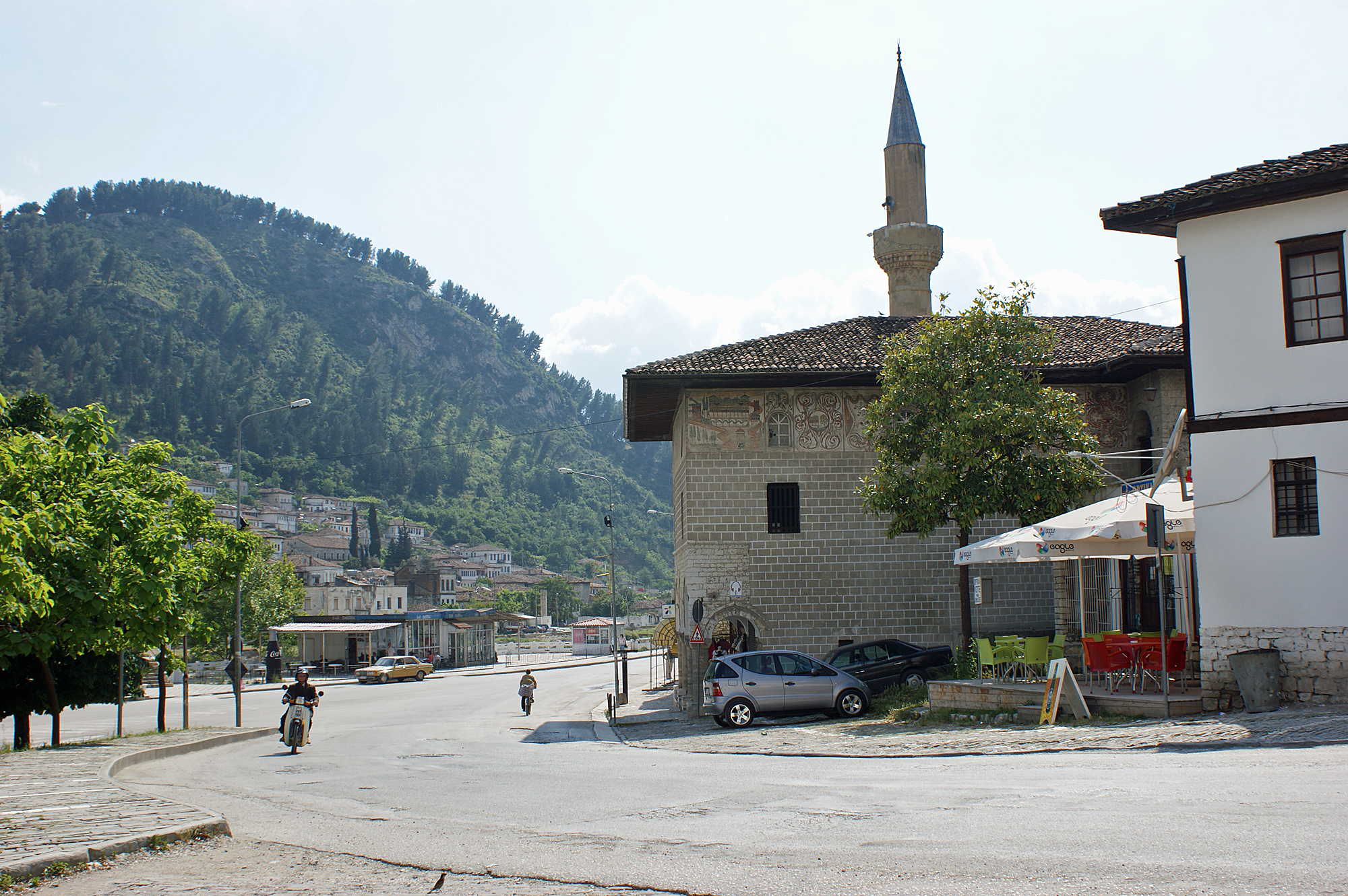 Bachelors' Mosque in Berat, Albania. City quarter Gorica in the background.